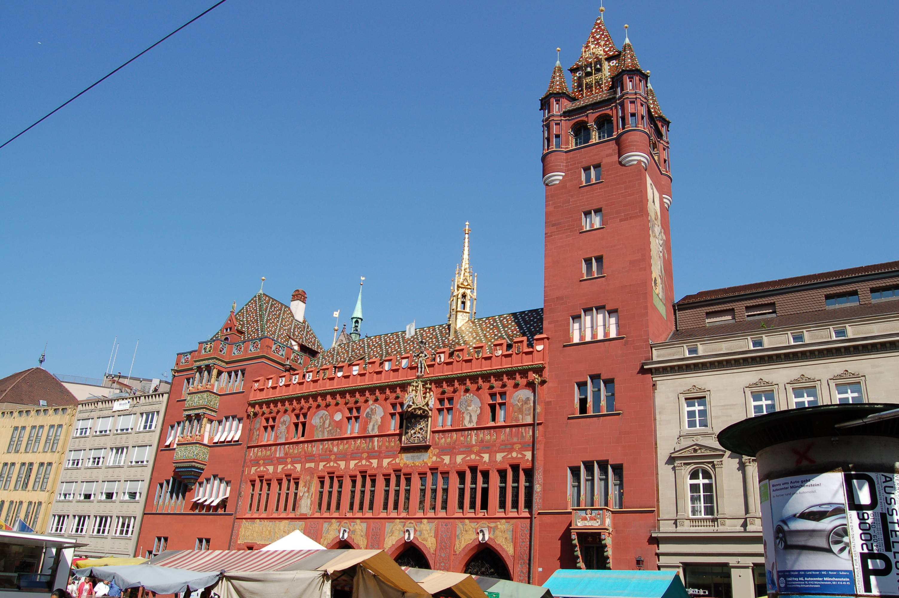 Basle, Switzerland